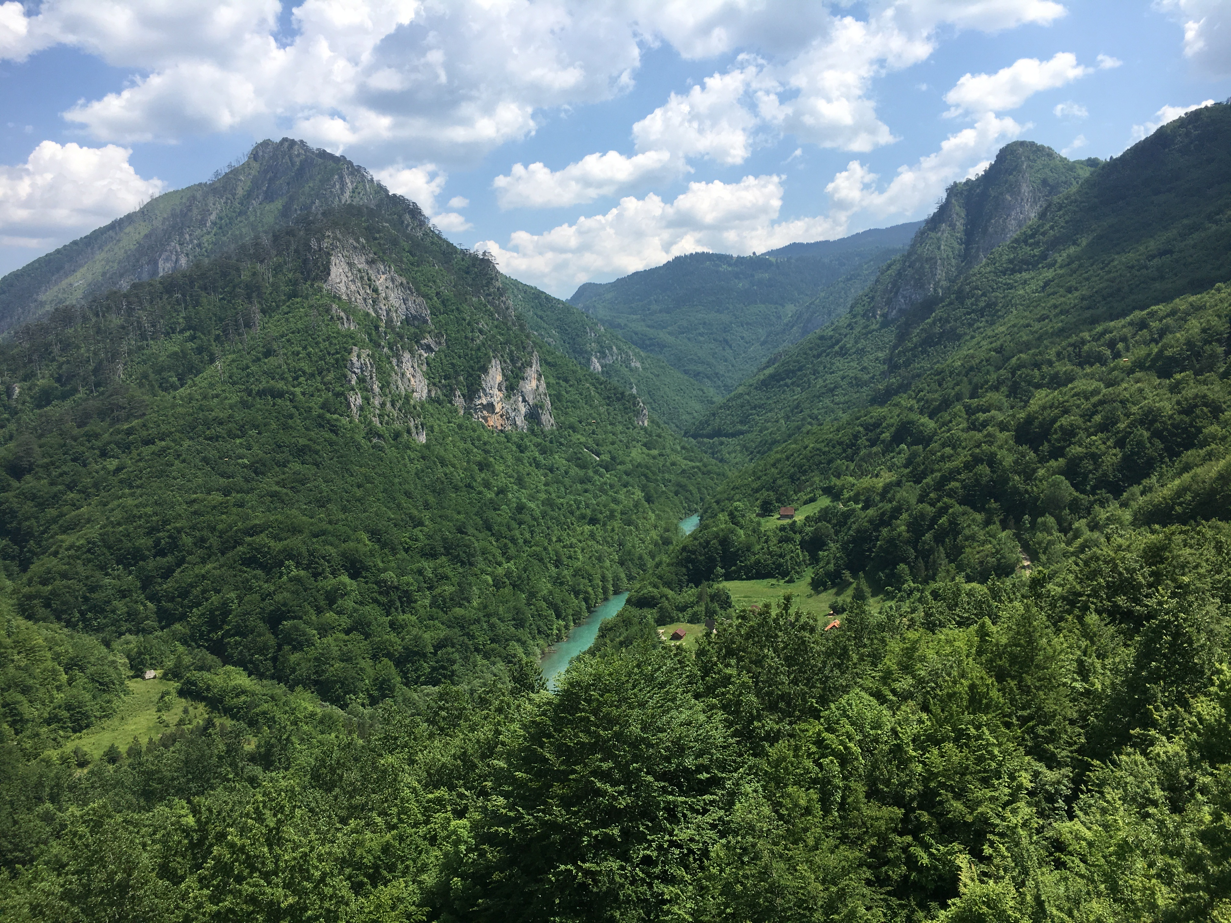 Tara River canyon at Đurđevića Tara Bridge (Montenegro)